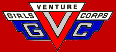 Girls Venture Corps Air Cadets Badge